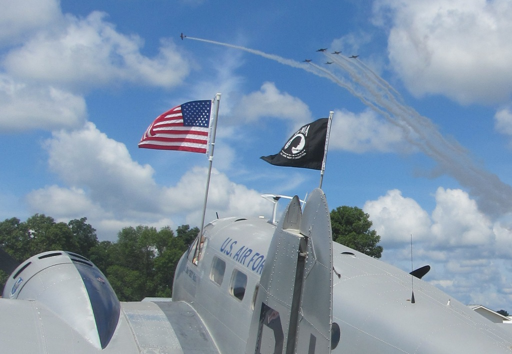 Missing Man